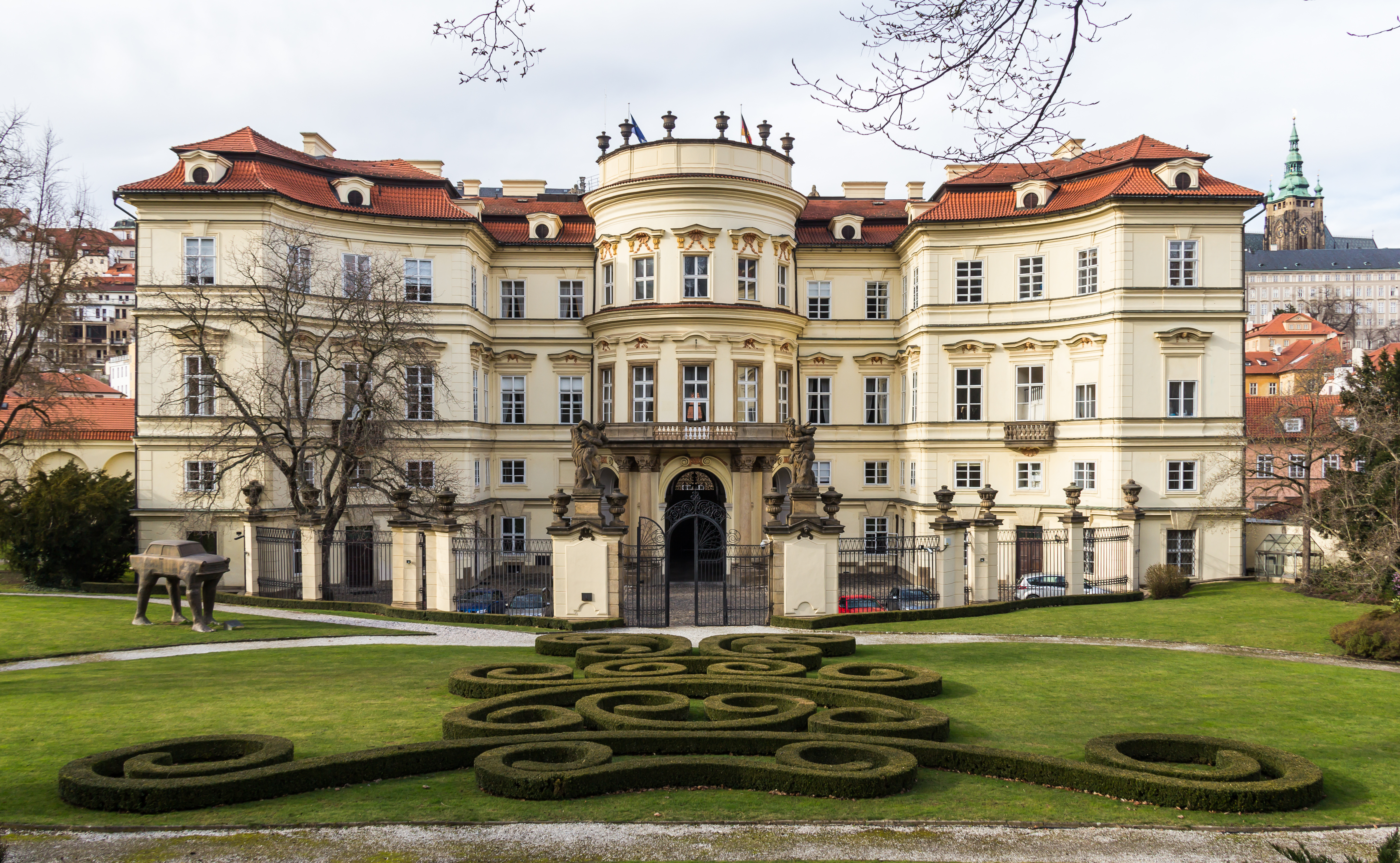 German Embassy, Prague, in the Palais Lobkowitz. Back side with garden